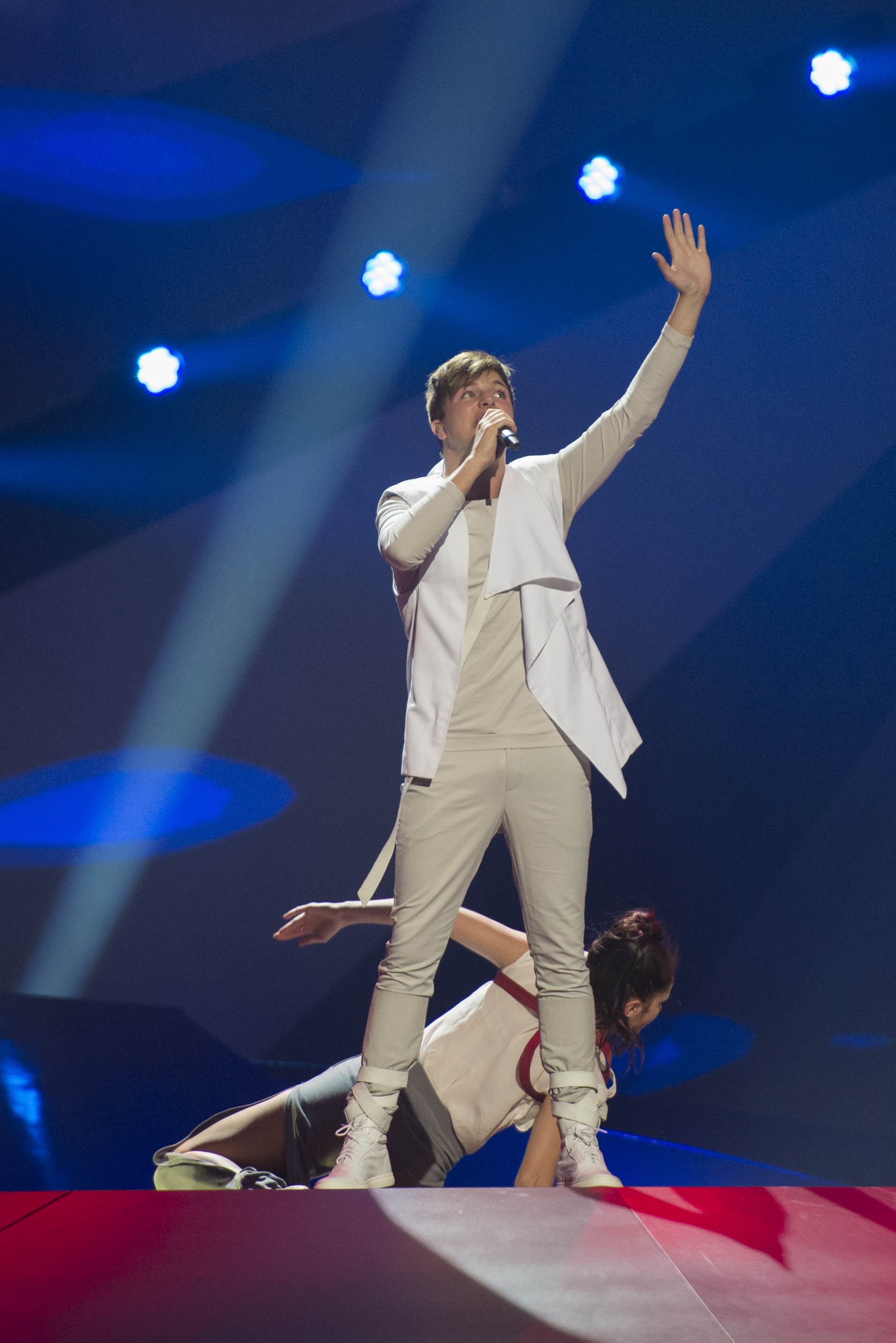 Robin Stjernberg representing Sweden with the song "You" during the first dress rehearsal of the final of the Eurovision Song Contest 2013 in Malmö. (Help translate this text)